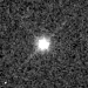 Hubble Space Telescope image of Jupiter trojan 1208 Troilus, taken on 26 October 2012.